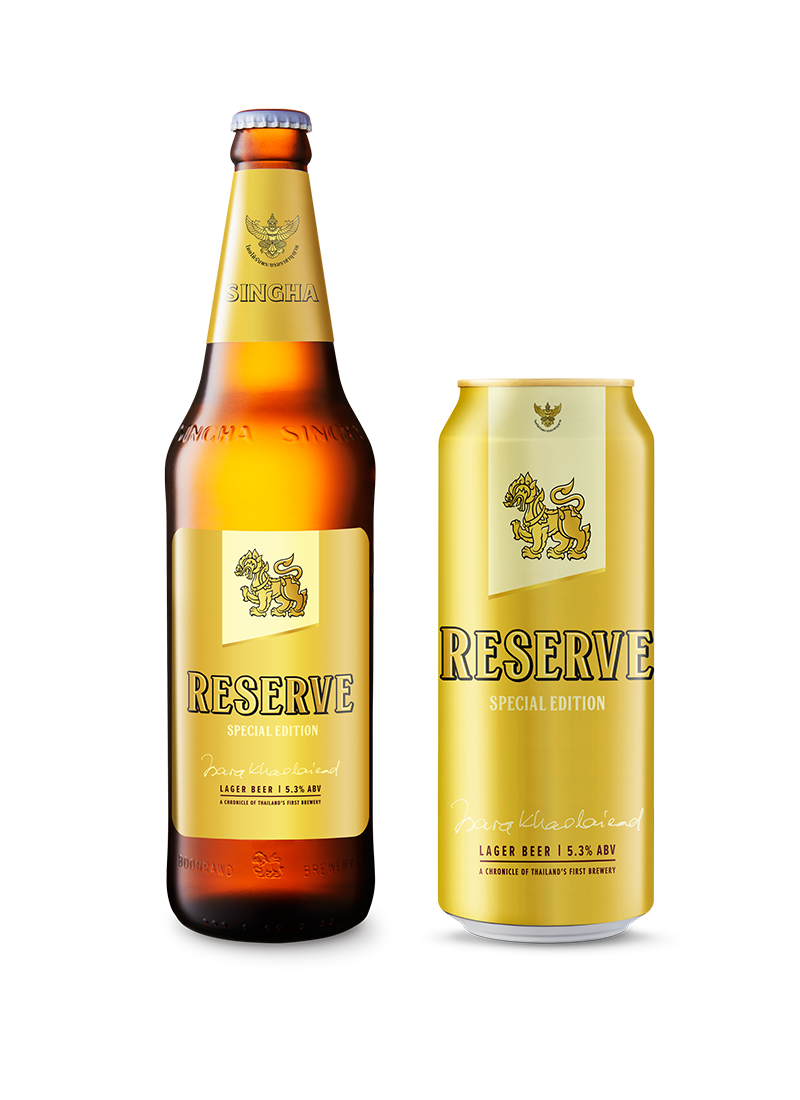 Singha Reserve 620 cl. bottle & 490 cl. can